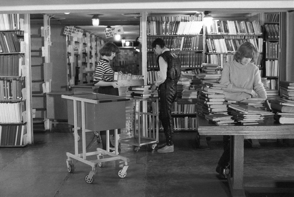 “V. I. Lenin State Library of the USSR”. A tier at the V. I. Lenin State Library of the USSR, now the Russian State Library.